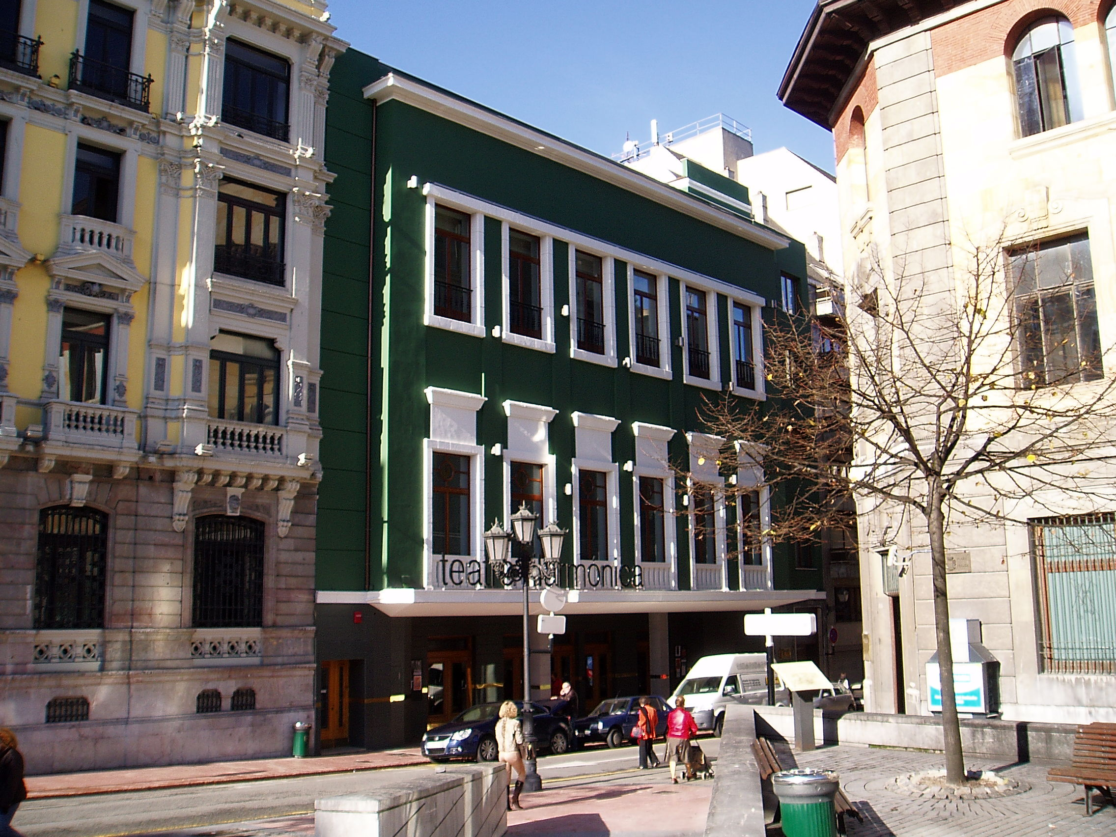 Teatro de la Filarmónica. Oviedo. Spain